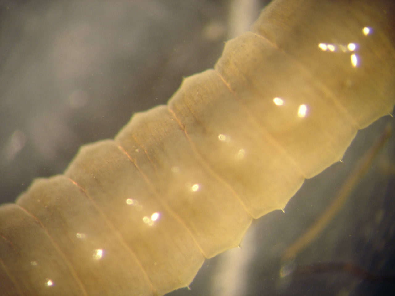 bristles of an earthworm (Lumbricidae)